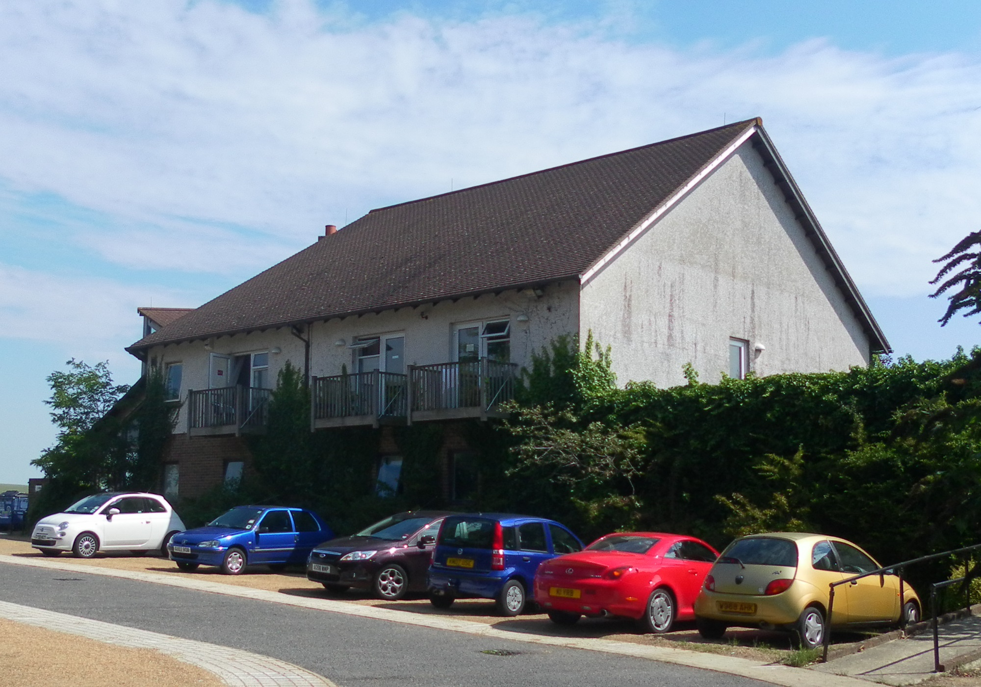 Sussex Beacon, Bevendean Road, Brighton, City of Brighton and Hove, England. Built in 1992 as a treatment facility for HIV/AIDS patients. It occupies the site of the former Bevendean Isolation Hospital (demolished in 1990).